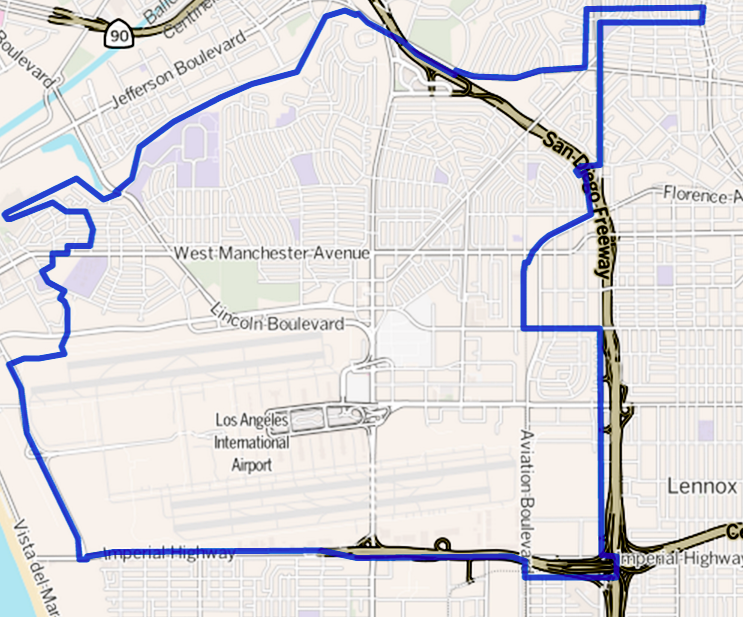 Map of Westchester, California as delineated by the Los Angeles Times Other information Boundary map as drawn by the Los Angeles Times on a CC-by-SA background. Note at bottom right of map on the L.A. Times website noted above says "CC-by-SA" (which gives permission to use the map). There is a link there to which explains the meaning thereof. The base map is credited to The Times spells all this out at